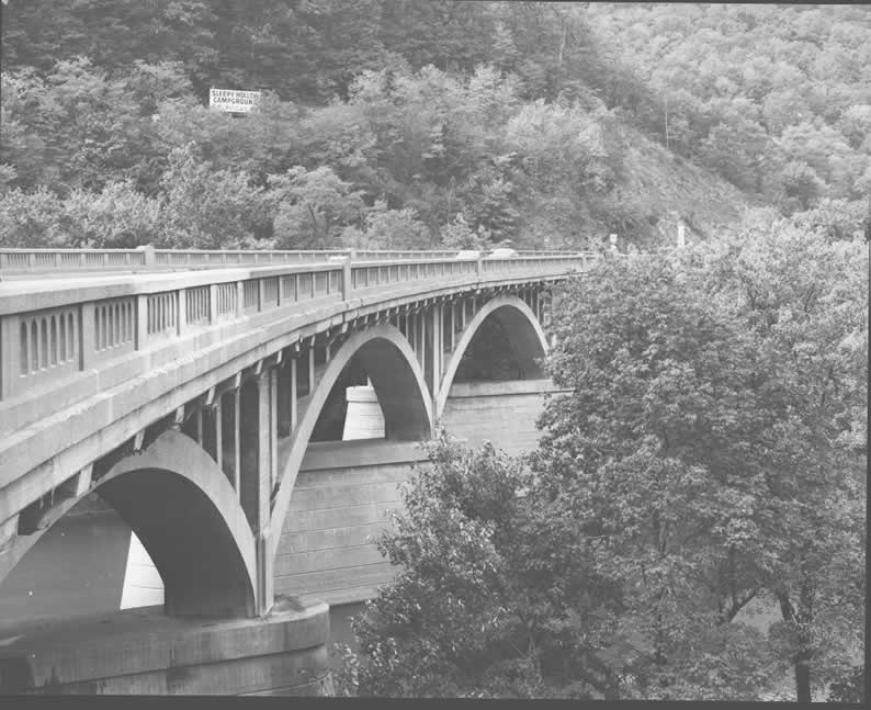 Side of the Bridge in Snake Spring Township, which carries Township Road 30 over the Raystown Branch of the Juniata River east of Bedford in Snake Spring Township, Bedford County, Pennsylvania, United States. Built in 1934, the bridge is listed on the National Register of Historic Places.